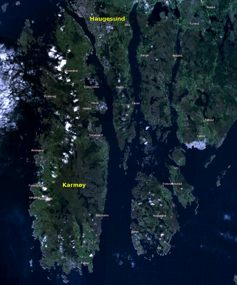 Satellite Image of Karmøy and Haugesund